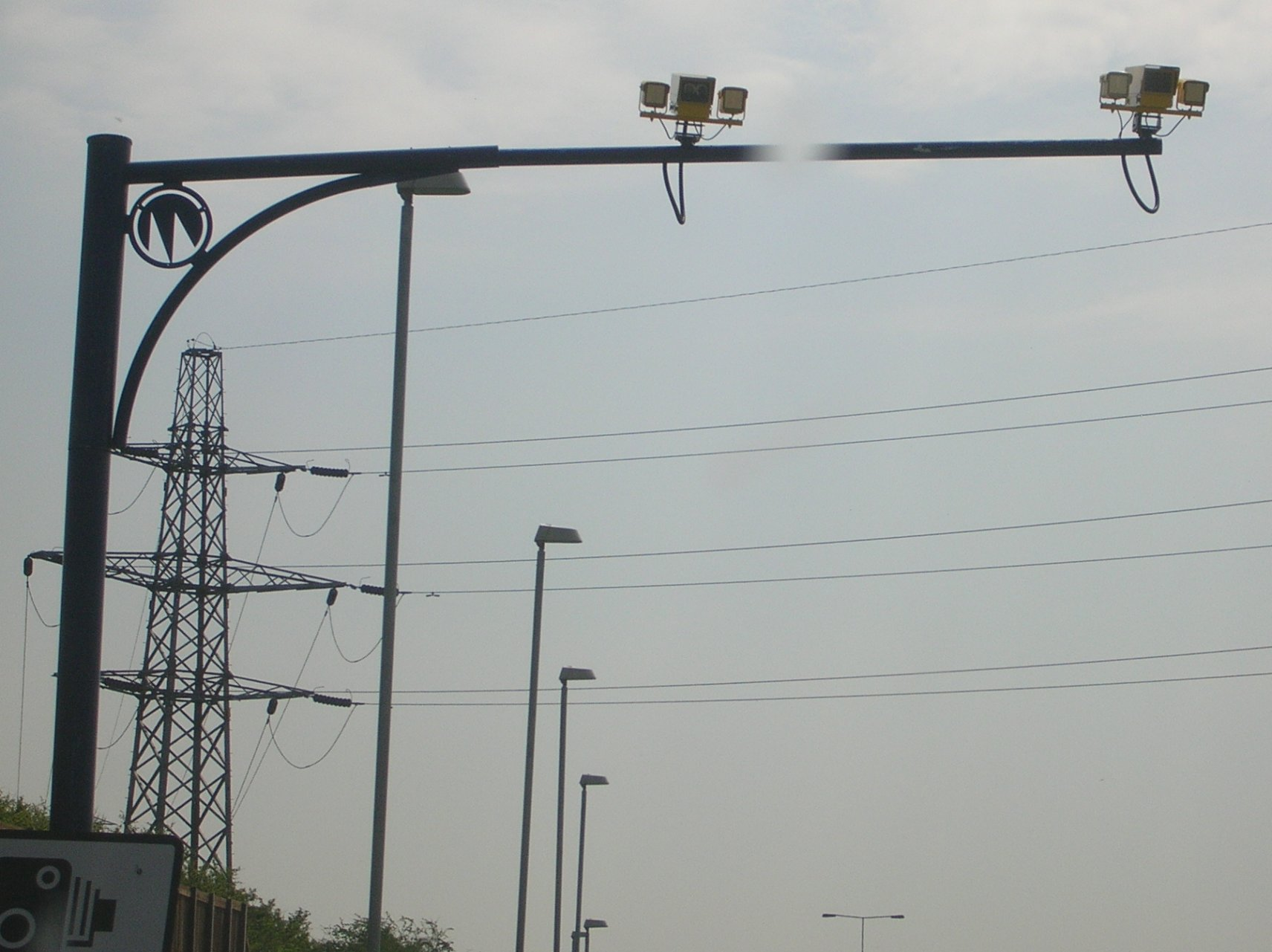 SPECS speed cameras on a gantry over the M1 motorway in the UK - southbound approaching junction 10 during roadworks